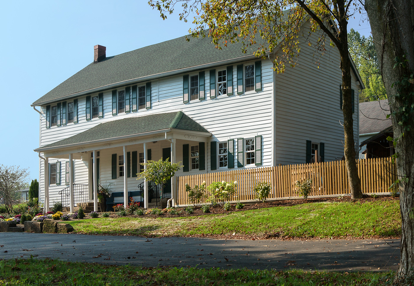 An 1829 hotel and tavern built by the Society of Separatists to serve travelers on the Ohio and Erie Canal